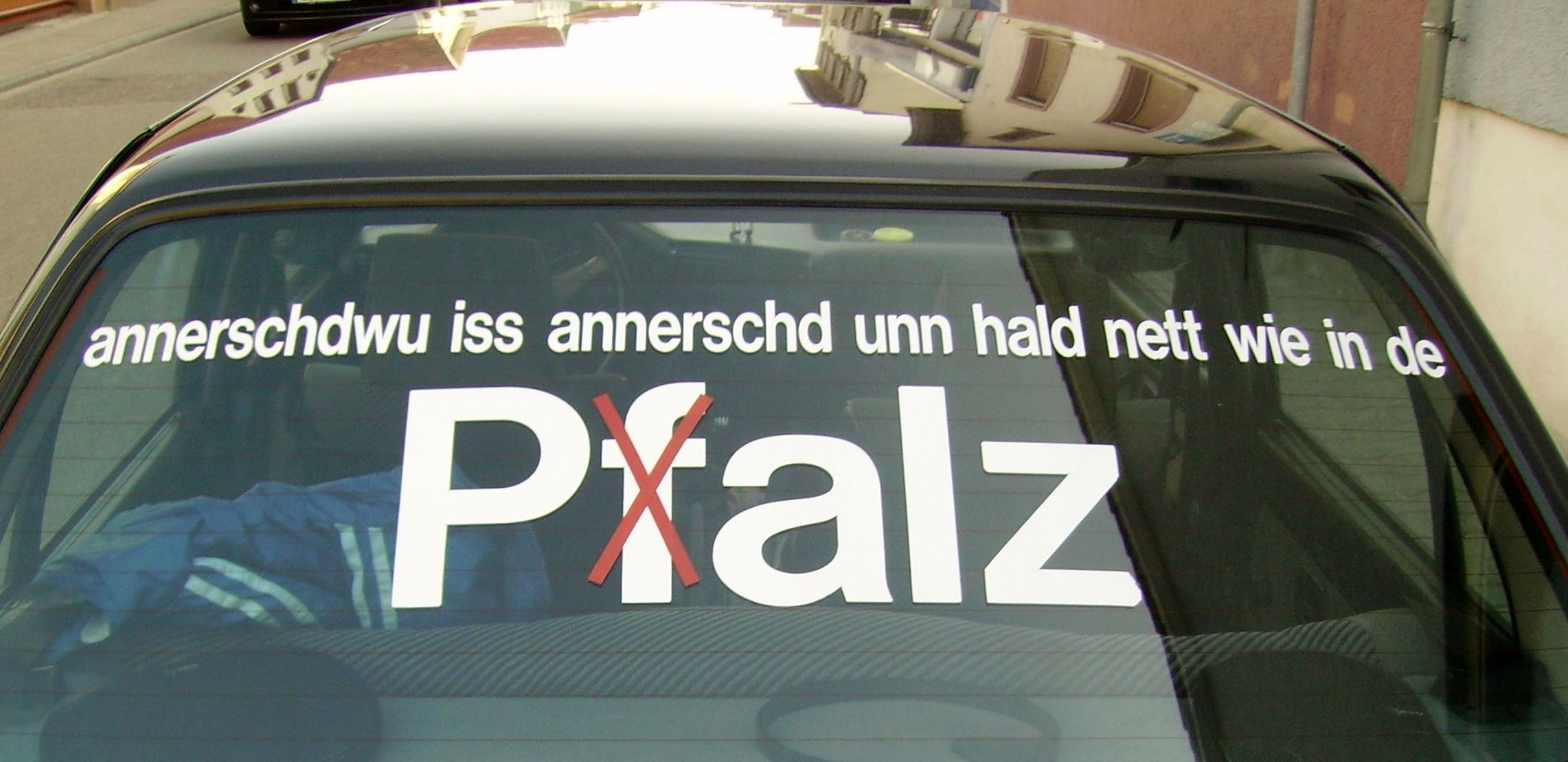 car in Eppstein, part of Frankenthal in Rhineland-Palatinate (Germany)